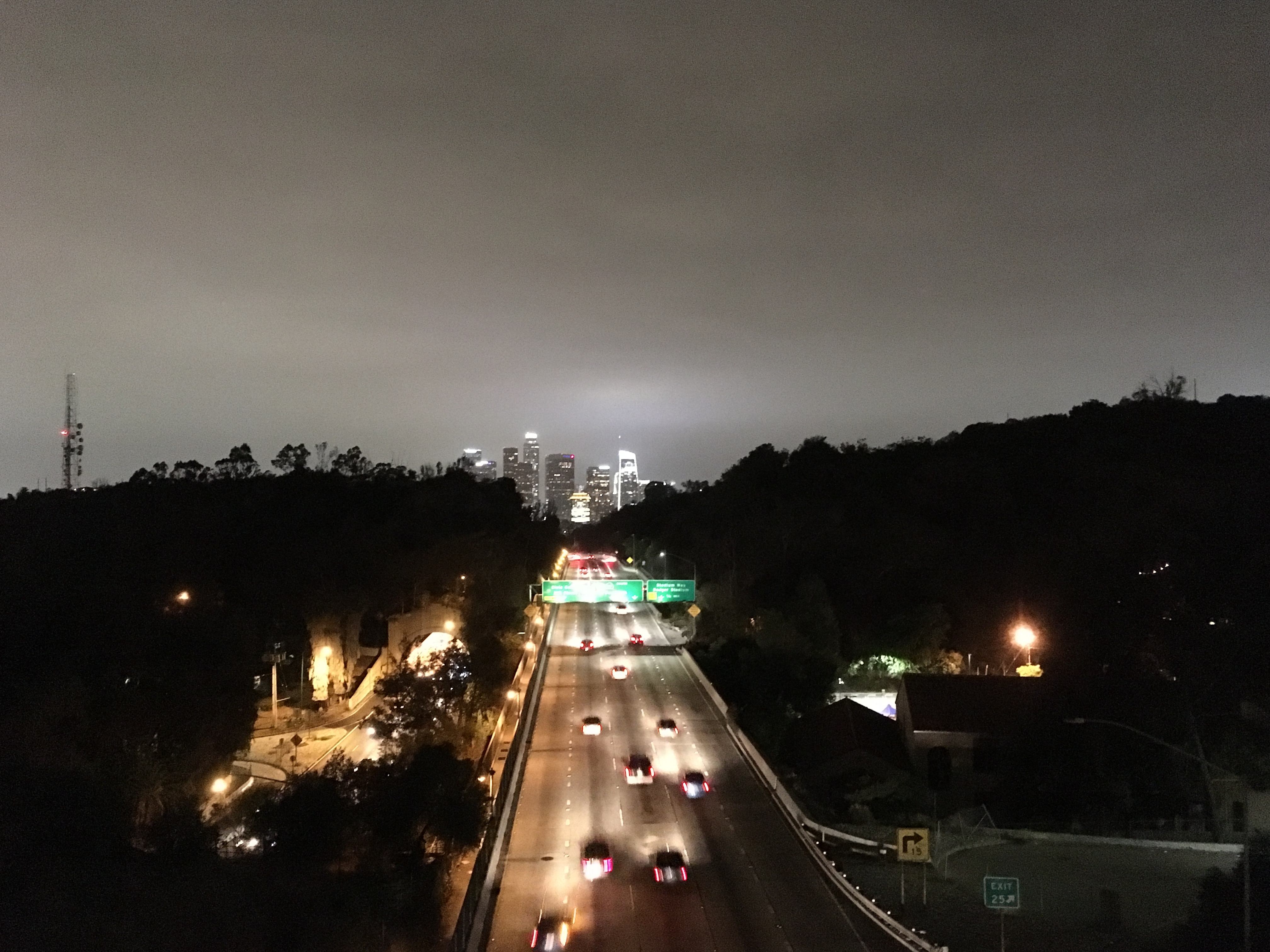 Night view from the Park Row Bridge overlooking California State Route 110 and Downtown Los Angeles, 2018